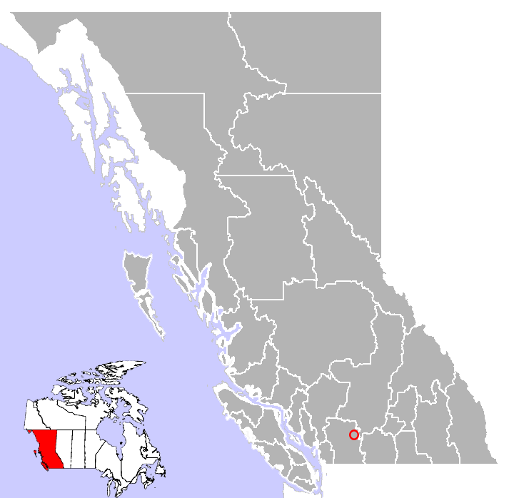 Spuzzum, British Columbia location.